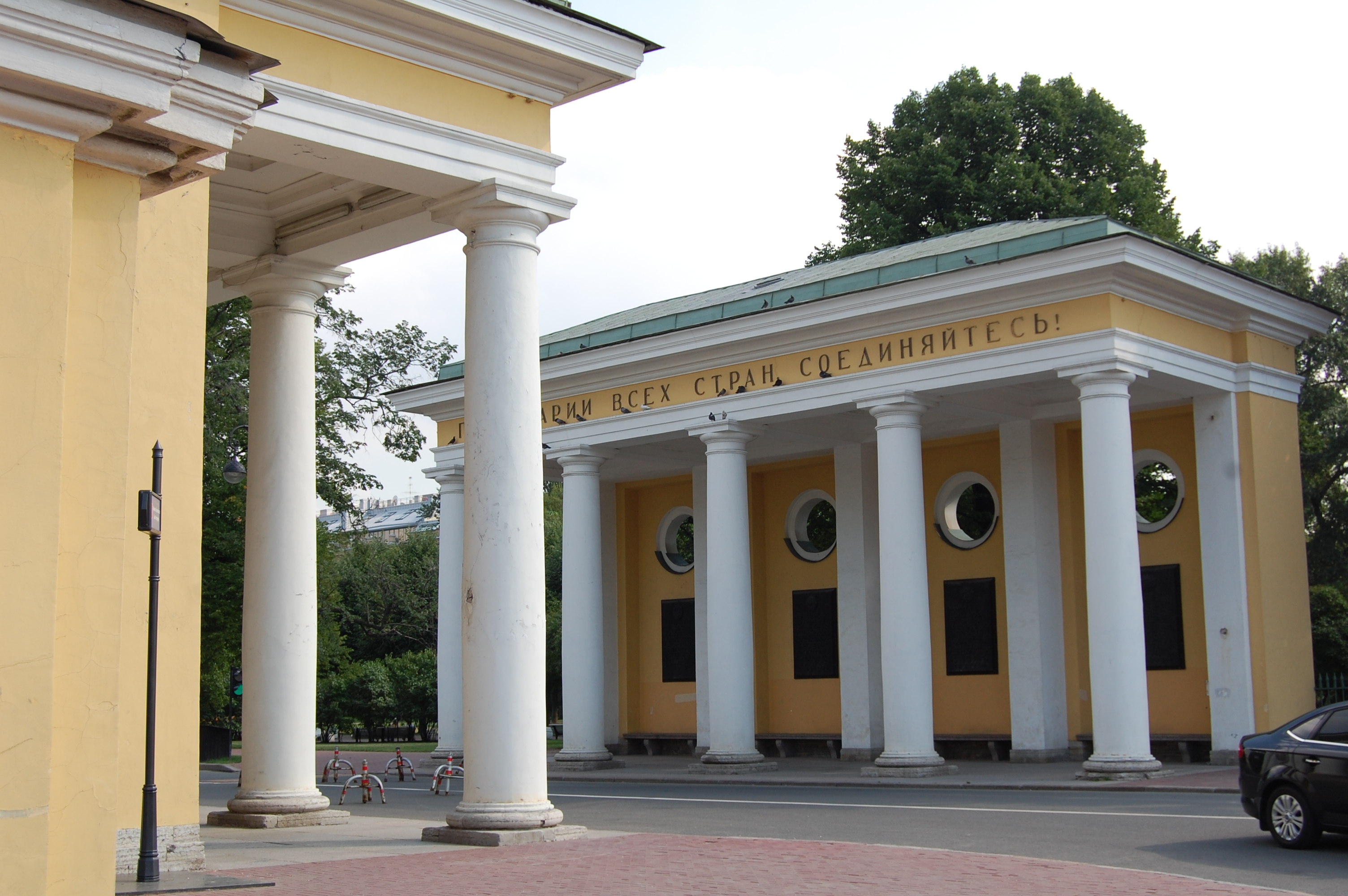 Propylaea of Smolny in St Petersburg